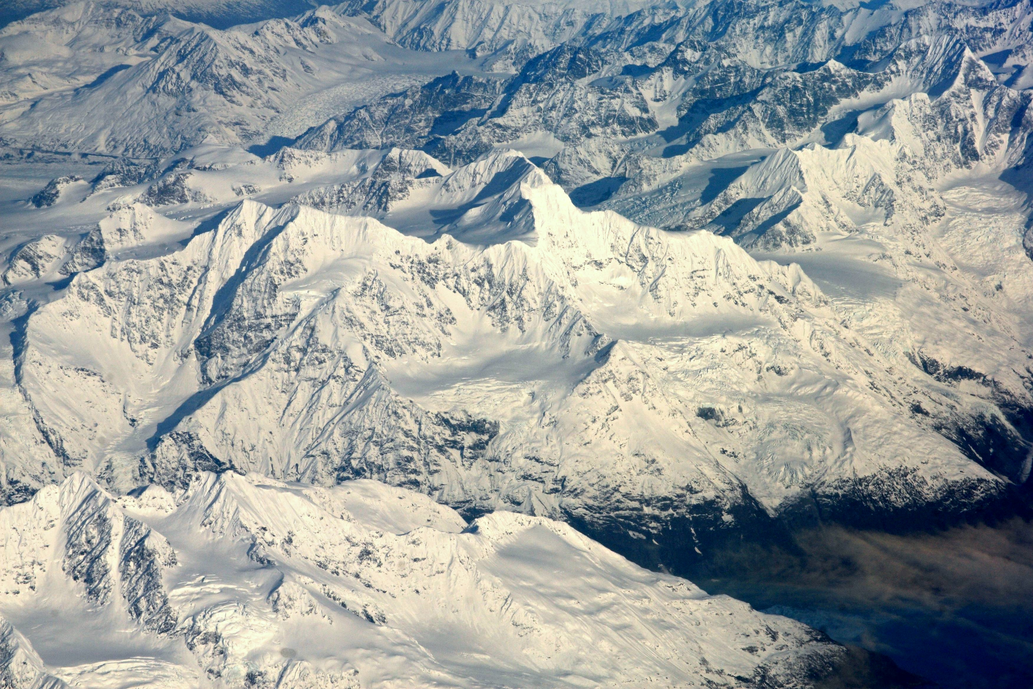 View from airliner of Mount Muir in Alaska.